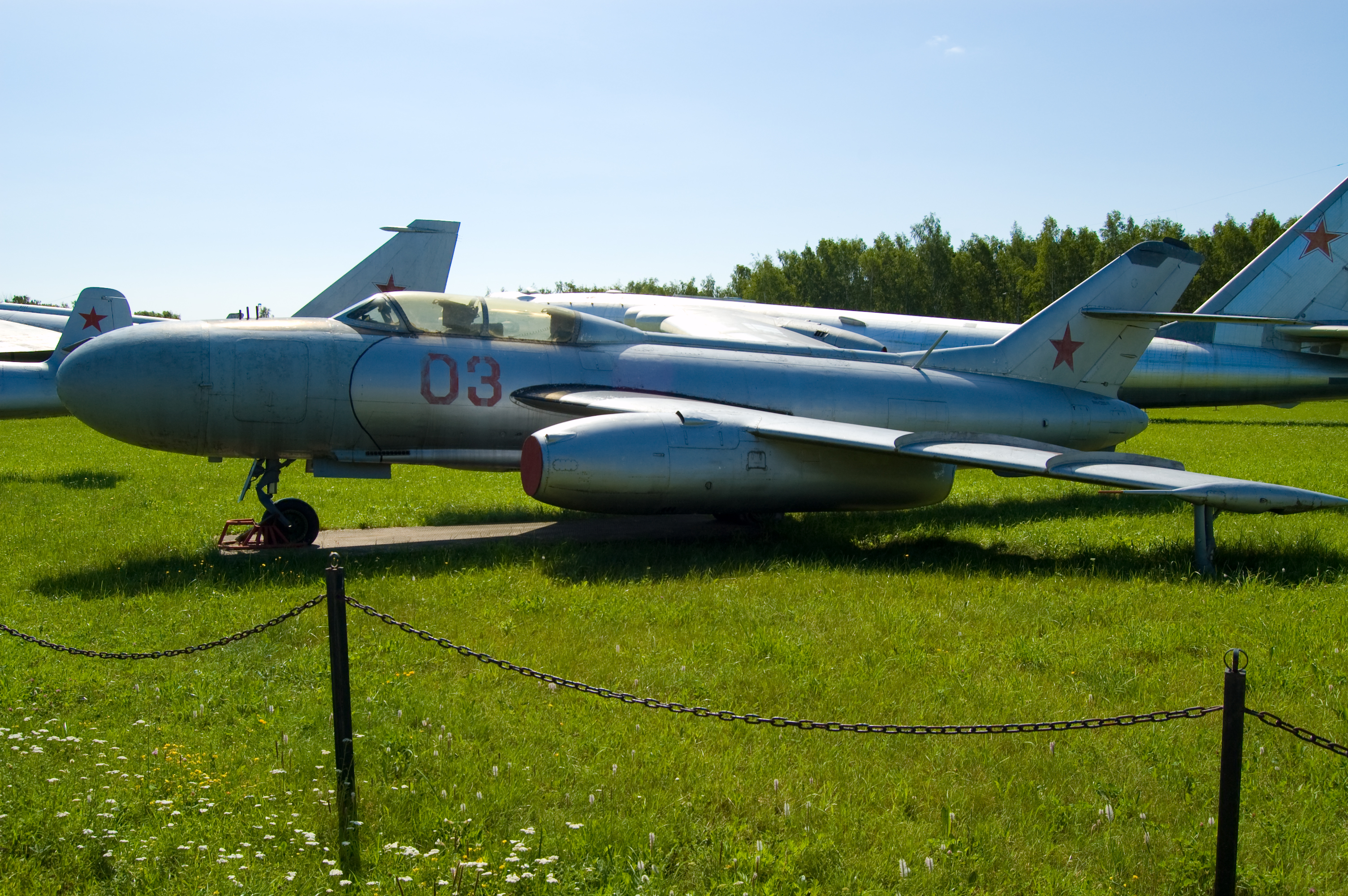 Fighter-intercepter Yak-25 in Monino.